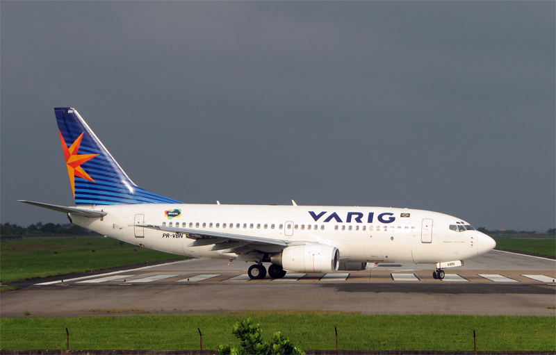 Varig(VRG) cabeceira 07